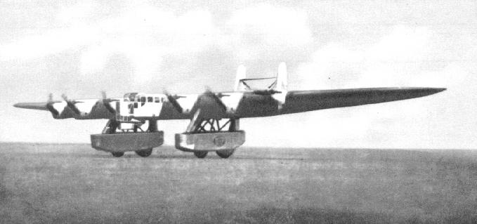 Kalinin K-7